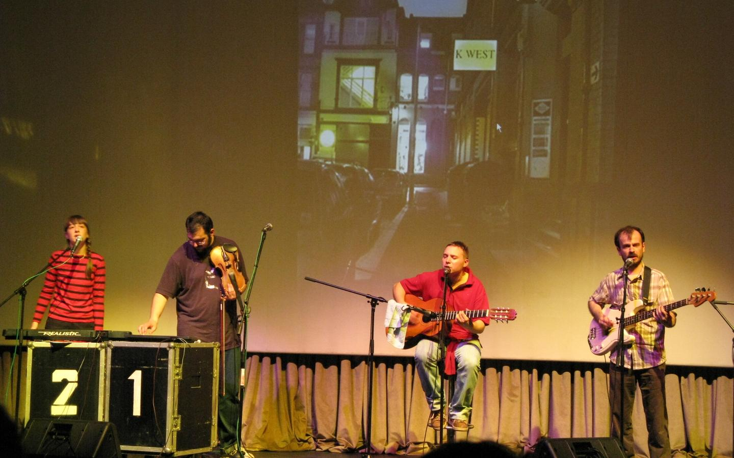 The concert of band Činč in "DK Studentski grad". May 5th 2008.